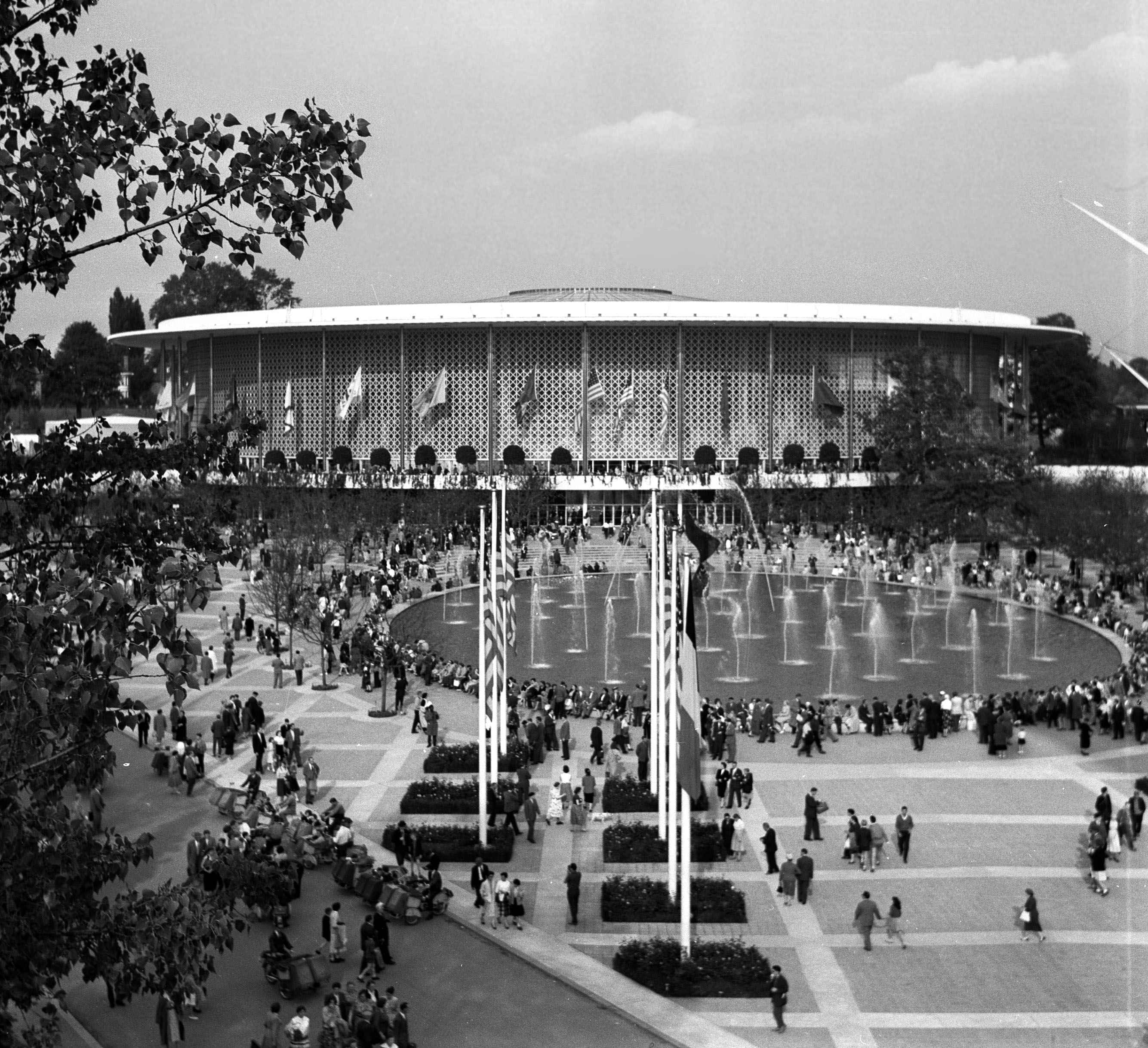 Expo 1958 the building of the USA